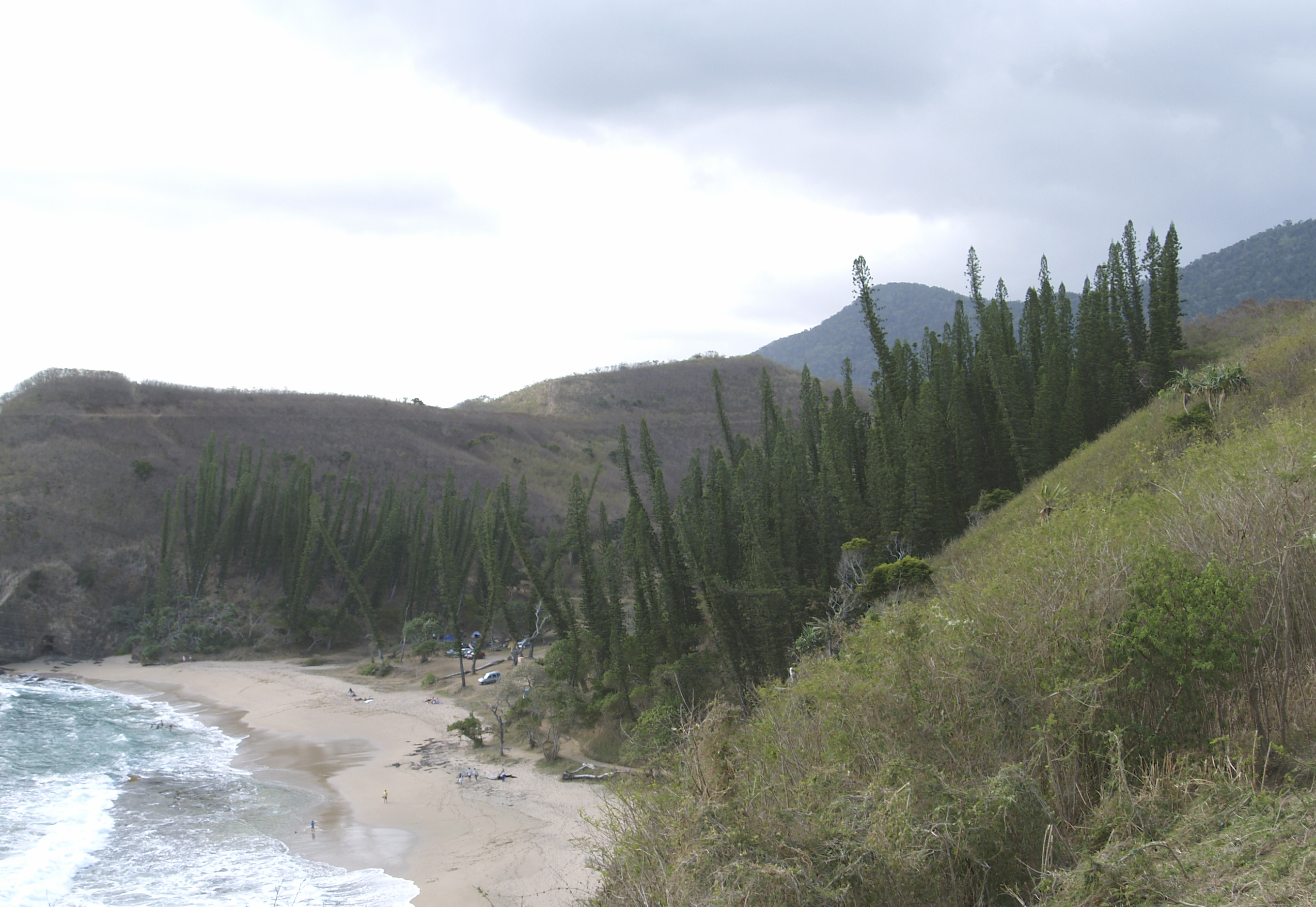 Araucaria columnaris, Baie des Tortues, Bourail, New Caledonia.